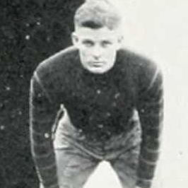 'Red' Rountree, halfback for Vanderbilt University in the early 1920s